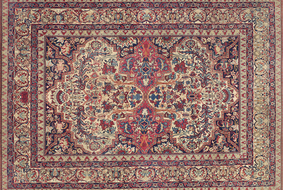 Persian Laver Kirman, 11ft 9in x 16ft 4in, early 19th century